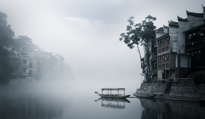 Morning in Fenghuang, Hunan province, China